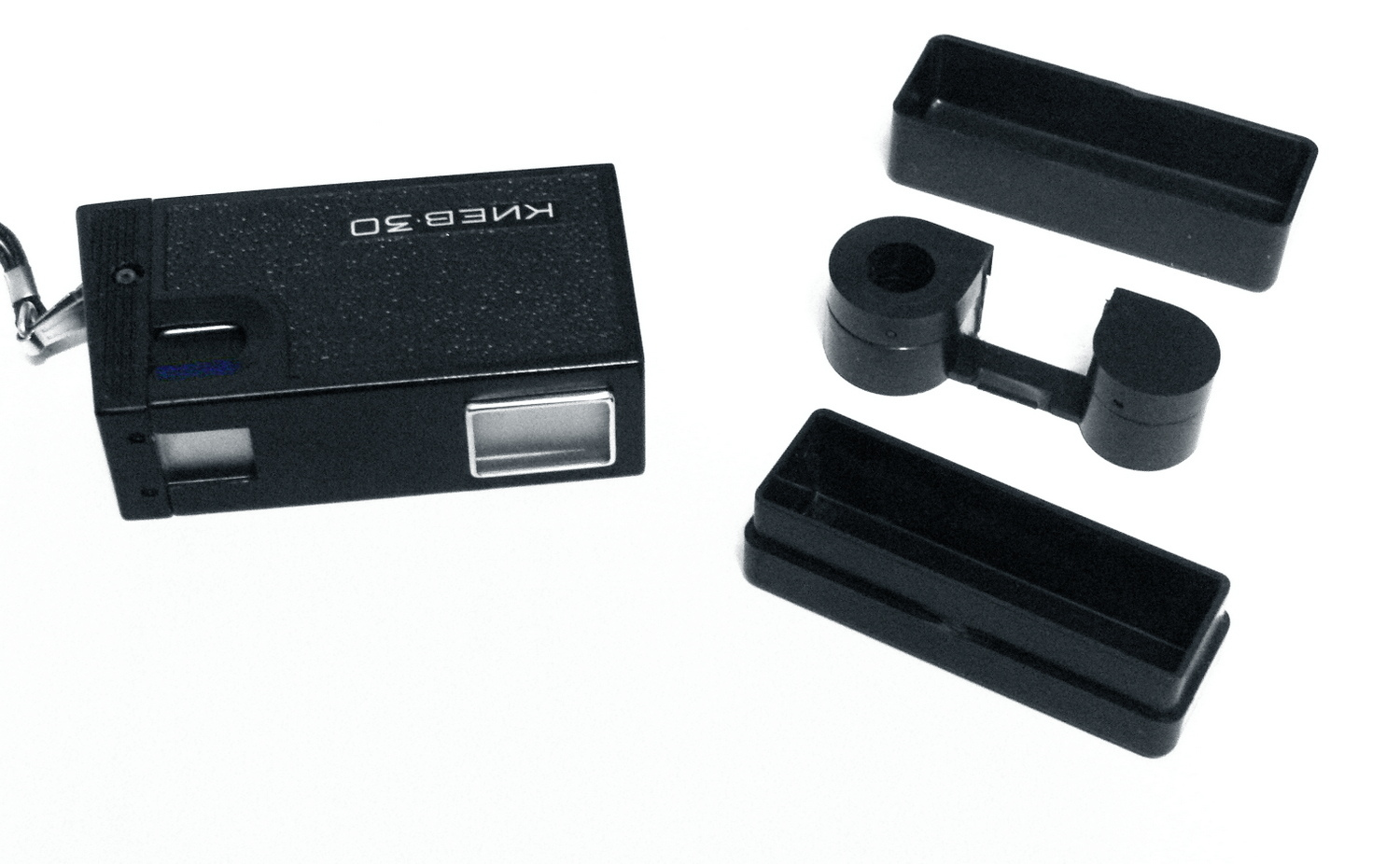 Ukraine made Kiev-30 16mm subminiature camera